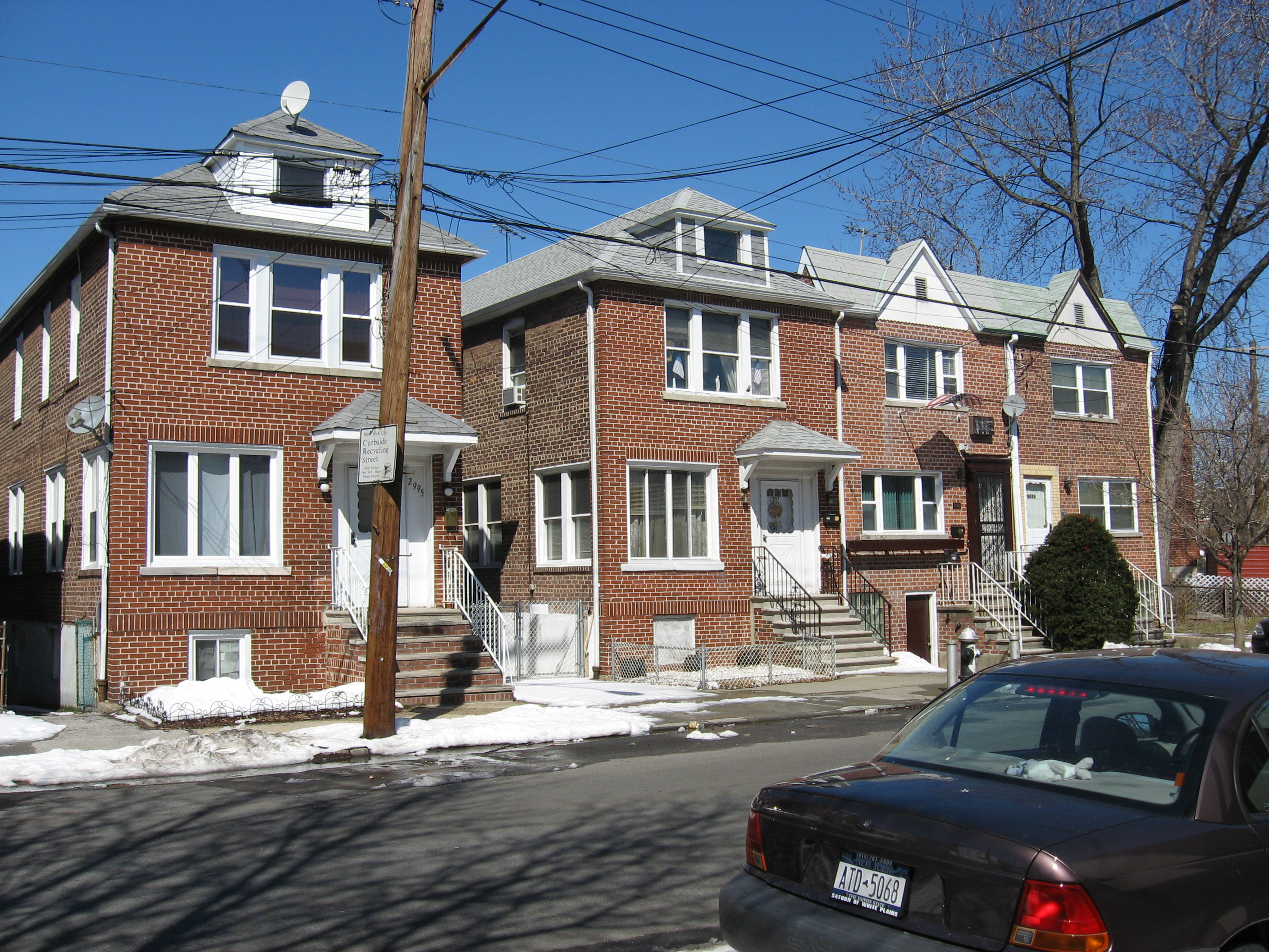 Houses along Zulette Avenue (near Hobart Avenue) in the Pelham Bay section of The Bronx.